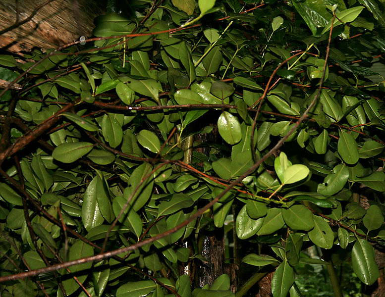 Pimenta dioica- Allspice, Jamaica pepper,"Kurundu" Myrtle pepper, pimento, newspice- in Goa, India.